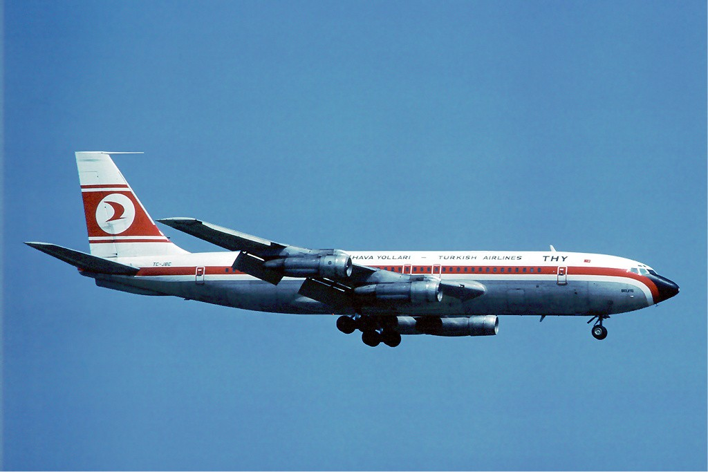 A Boeing 707 of Turkish Airlines at Zurich Airport